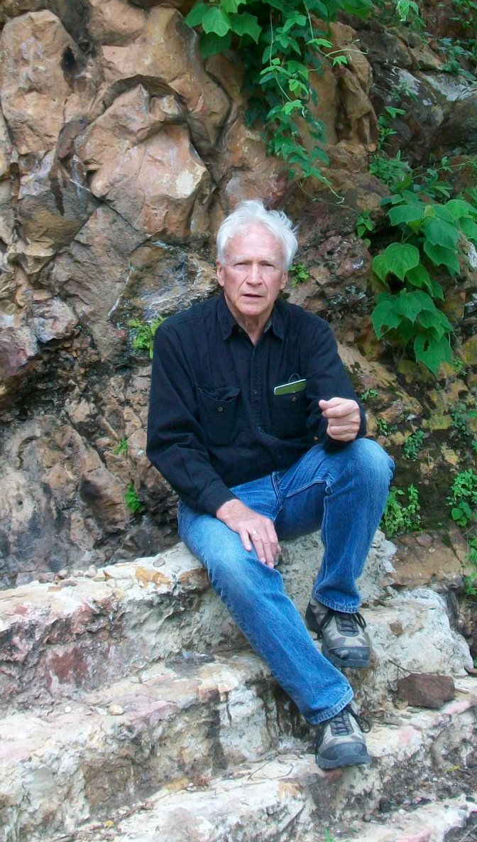 Ronald Spores in the Mixteca Region, Oaxca, Mexico, 2009